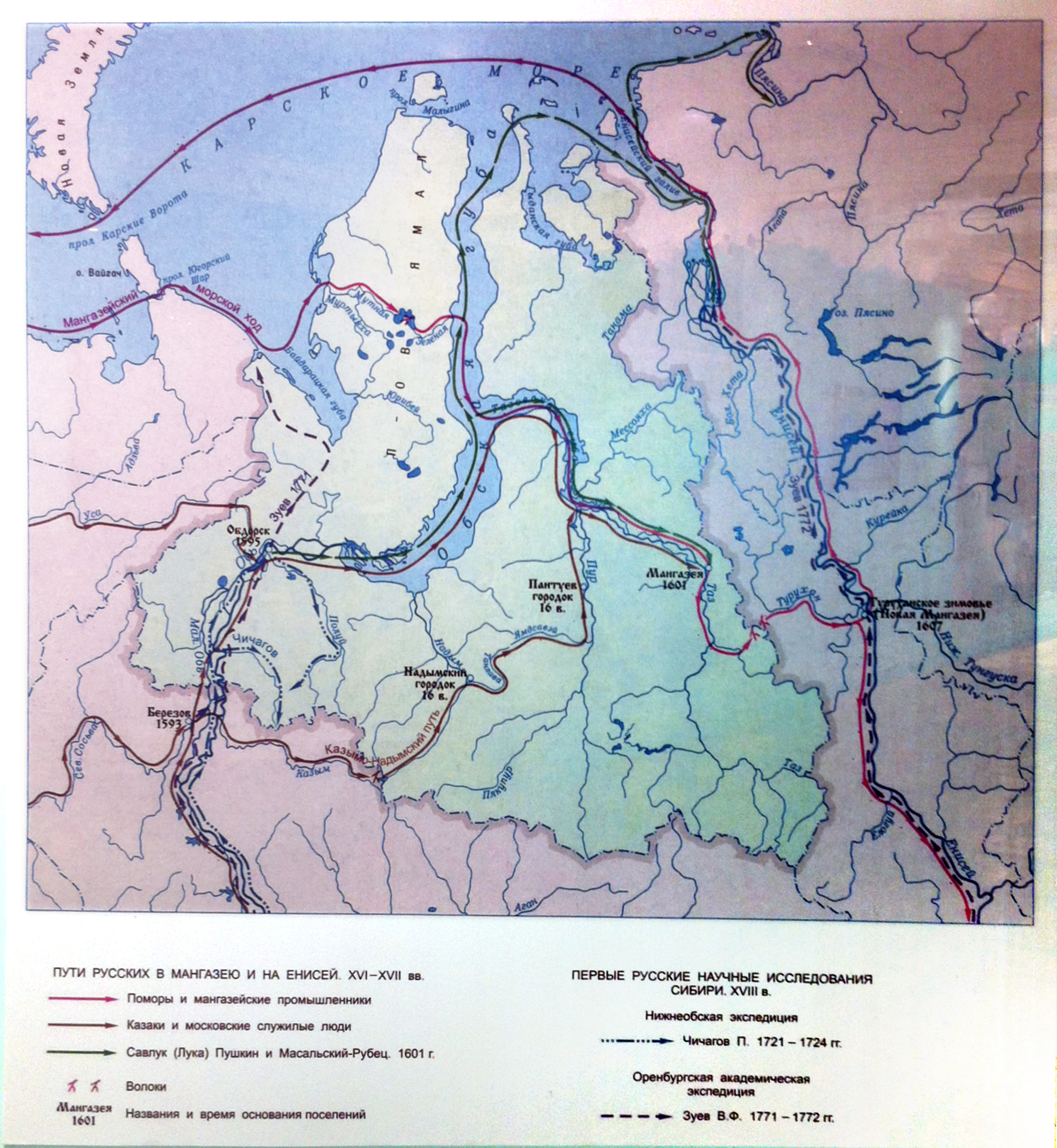 Map of paths of Russians to town of Mangazeya and Yenisey river during XVI - XVII centuries. Also the routes of scientific expeditions during XVIII century are shown on the map. Shemanovsky museum and exhibition complex. Mangazeya Hall.